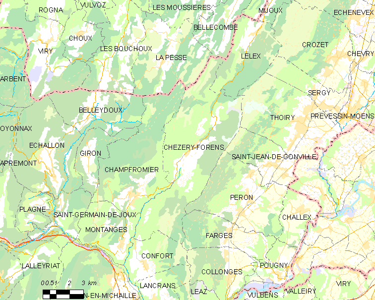 Map of French commune: Chézery-Forens Map commune FR insee code 01104.png